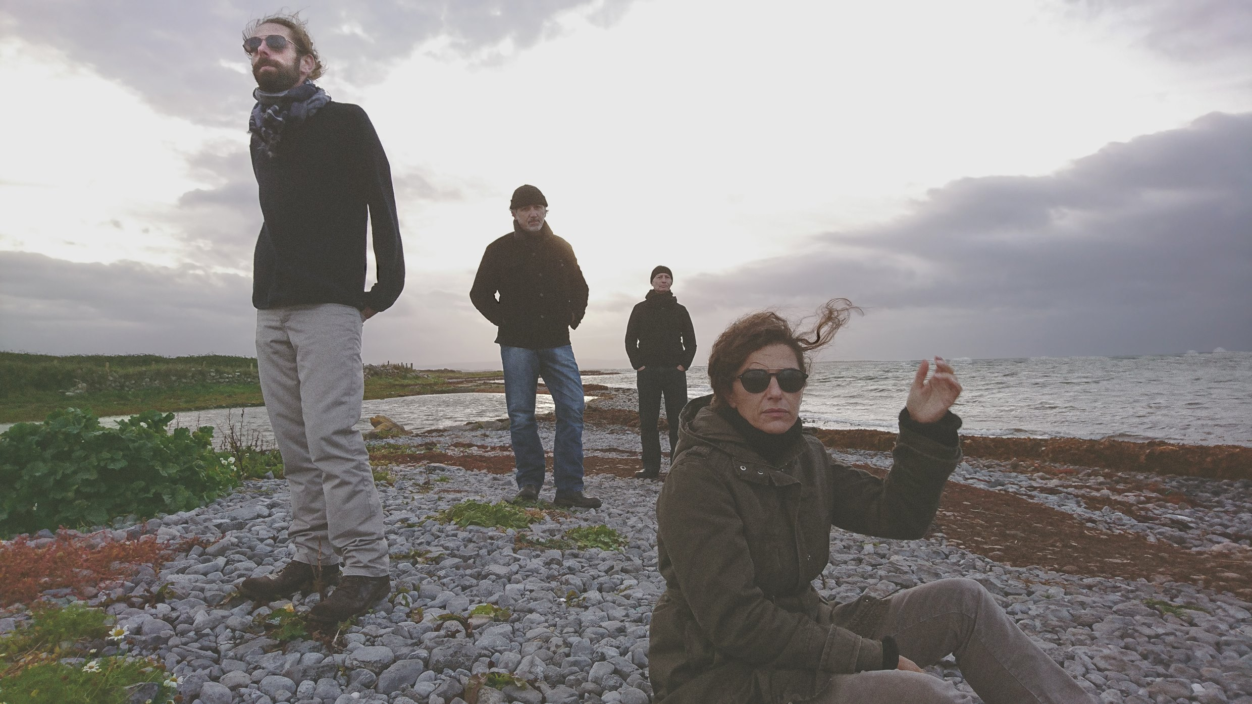 This is a portrait photo of the Deleyaman band. People in the photo - Aret Madilian, Beatrice Valantin, Guillaume Leprevost, Gerard Madilian.